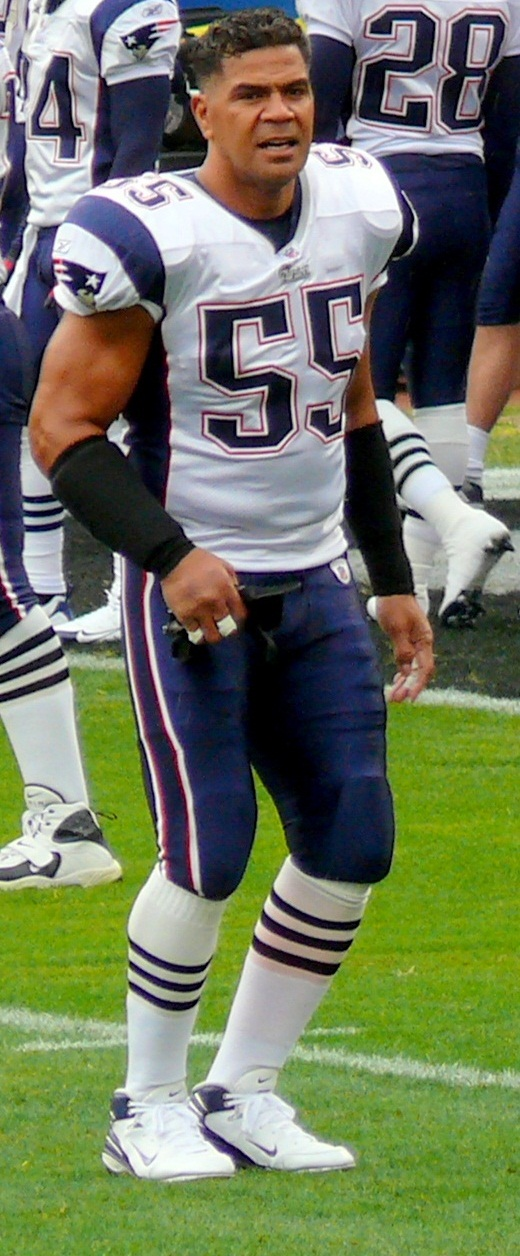 New England Patriots linebacker Junior Seau during a game against the Oakland Raiders.